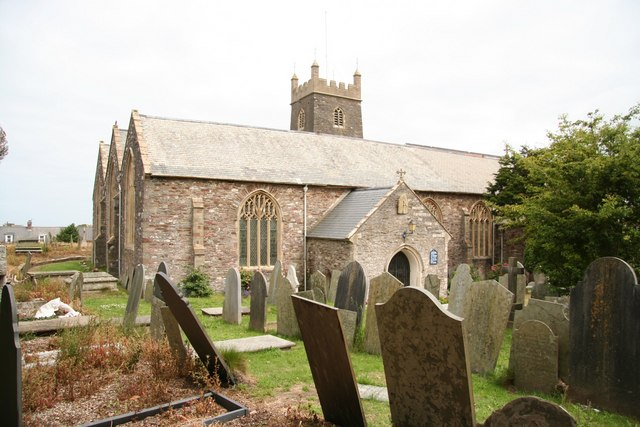 Holy Trinity Church Externally 15th century Perpendicular with a 13th century tower and some 14th century features